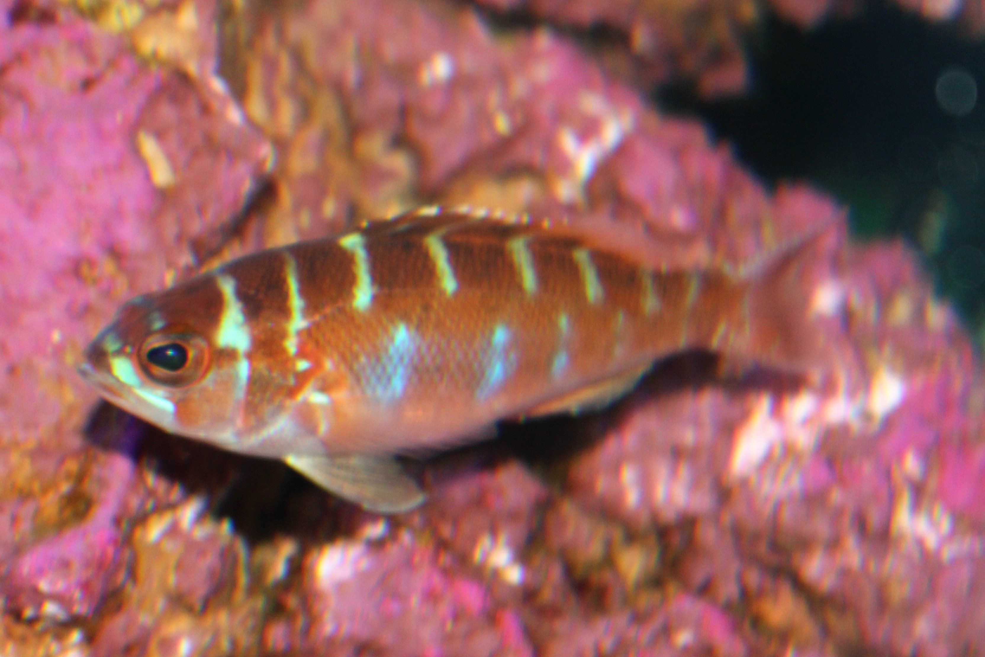 Chalk bass (Serranus tortugarum) in Southend-on-Sea aquarium, England.